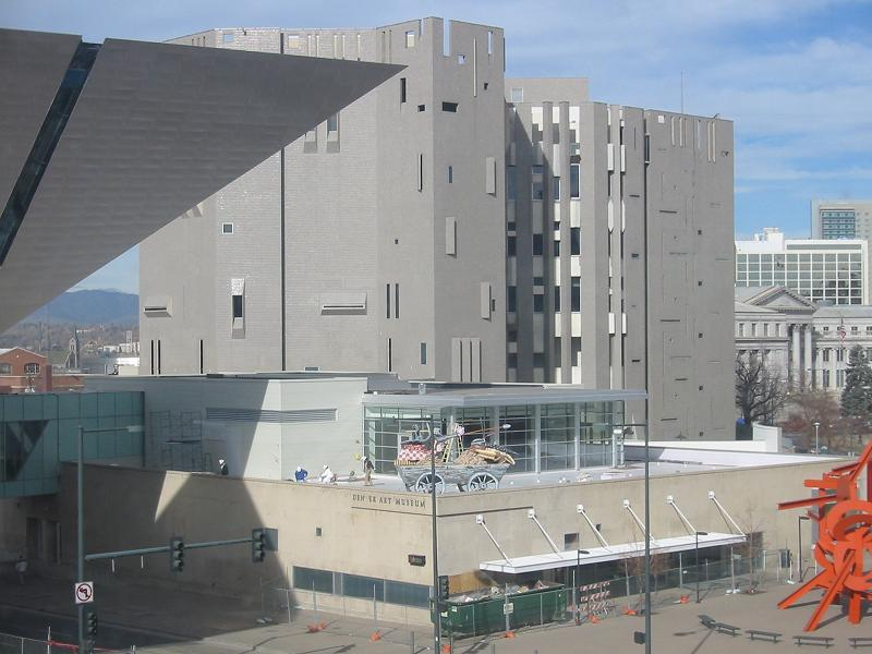 Garett Naff